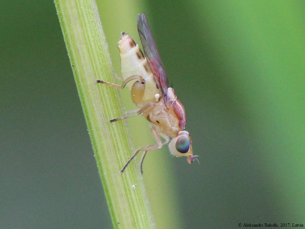 Meromyza saltatrix